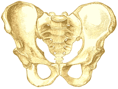 Organ adapted for use in Human body diagrams